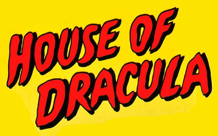 Official logo of the movie House of Dracula